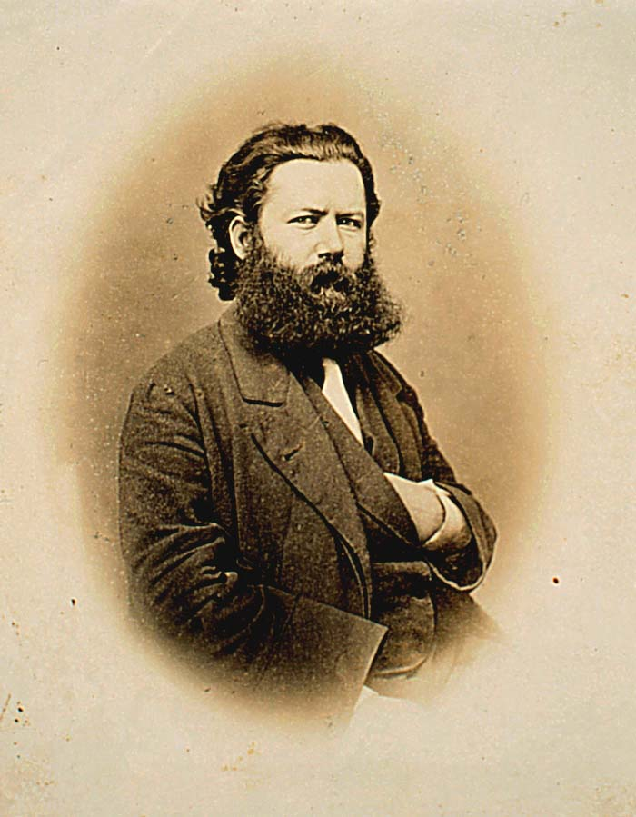 Early photograph of Henrik Ibsen, Norwegian Writer, 1828-1906